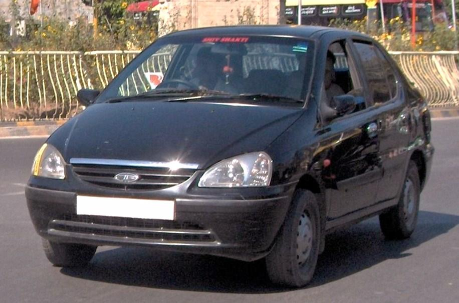 Tata Indigo sedan 2002